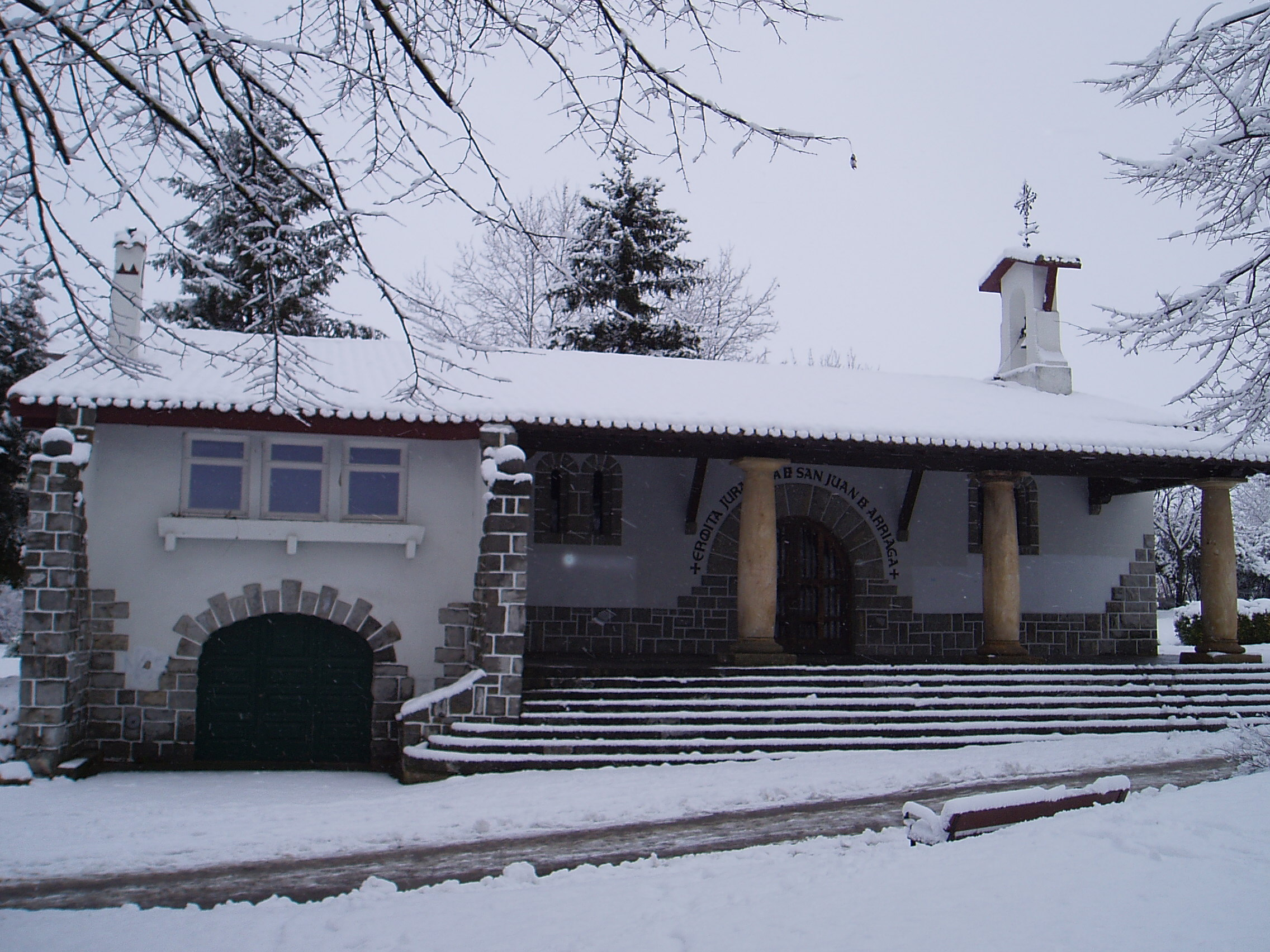 San Juan de Arriagako Baseliza. Argazkiari buruzko datuak: 2007/01/25, Gasteiz I took this photograph in Gasteiz, exactly in Arriaga, on 25th of January 2007.